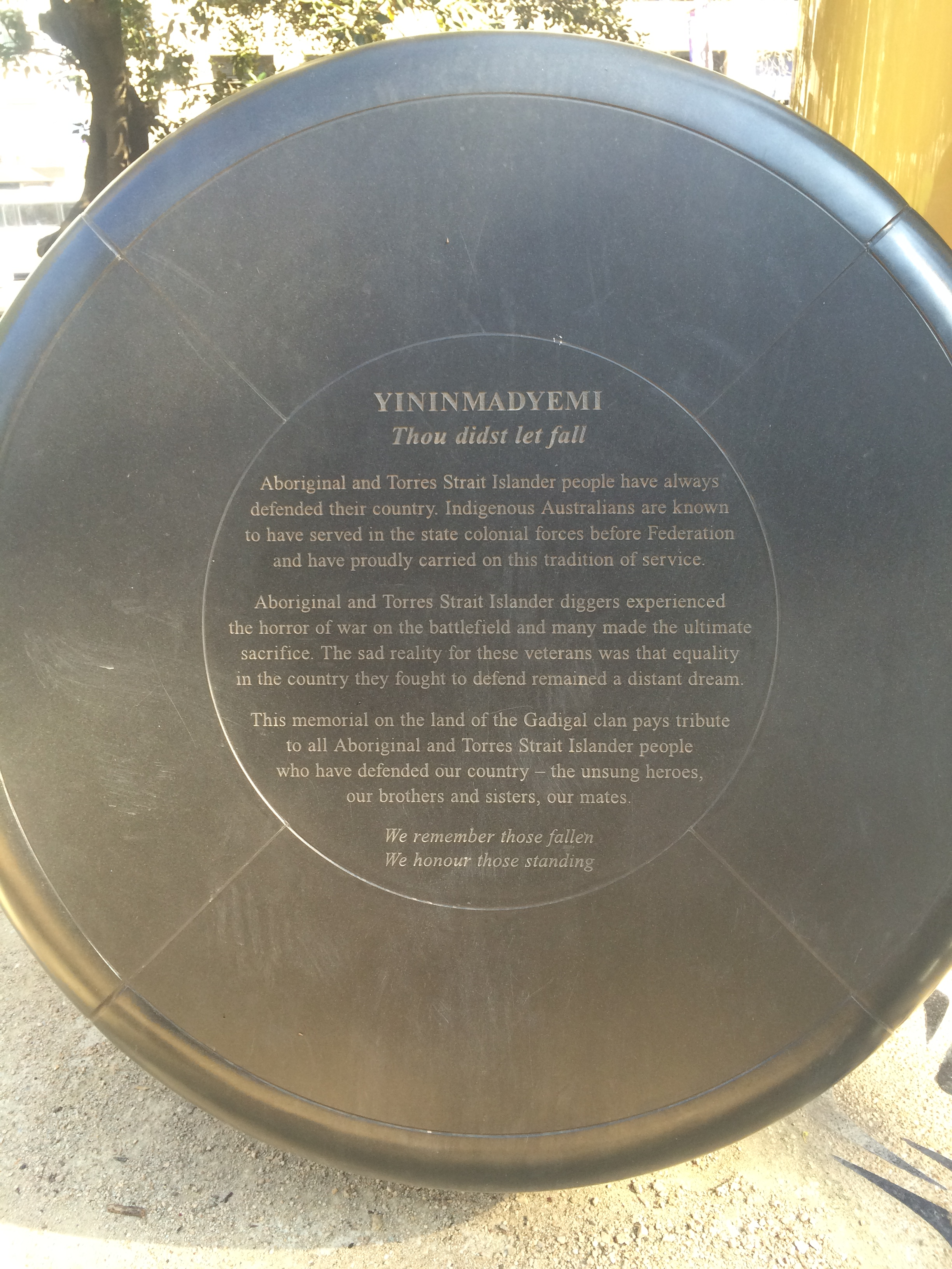 A photograph of the text inscribed on the base of a fallen shell casing that is part of the sculptural artwork, 'Yininmadyemi' - Thou didst let fall.